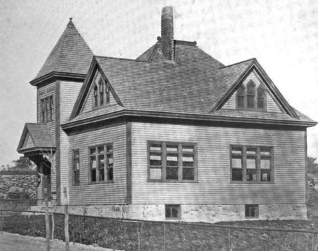 Public library, Massachusetts